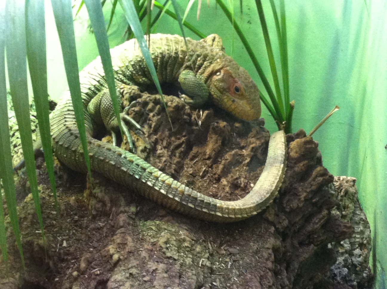 Specimen on display at the Smithsonian National Zoological Park, Washington, DC